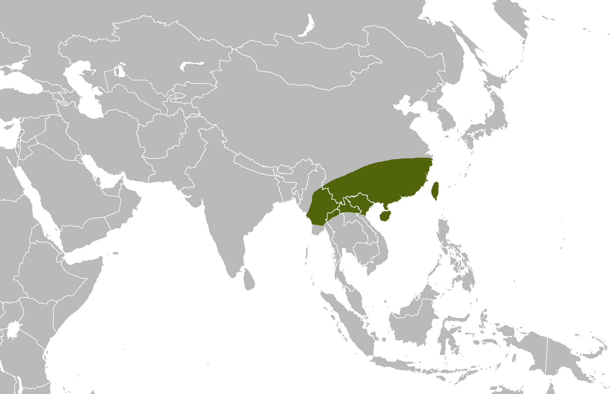 Map showing the range of the many-banded krait, a venomous snake of East Asia